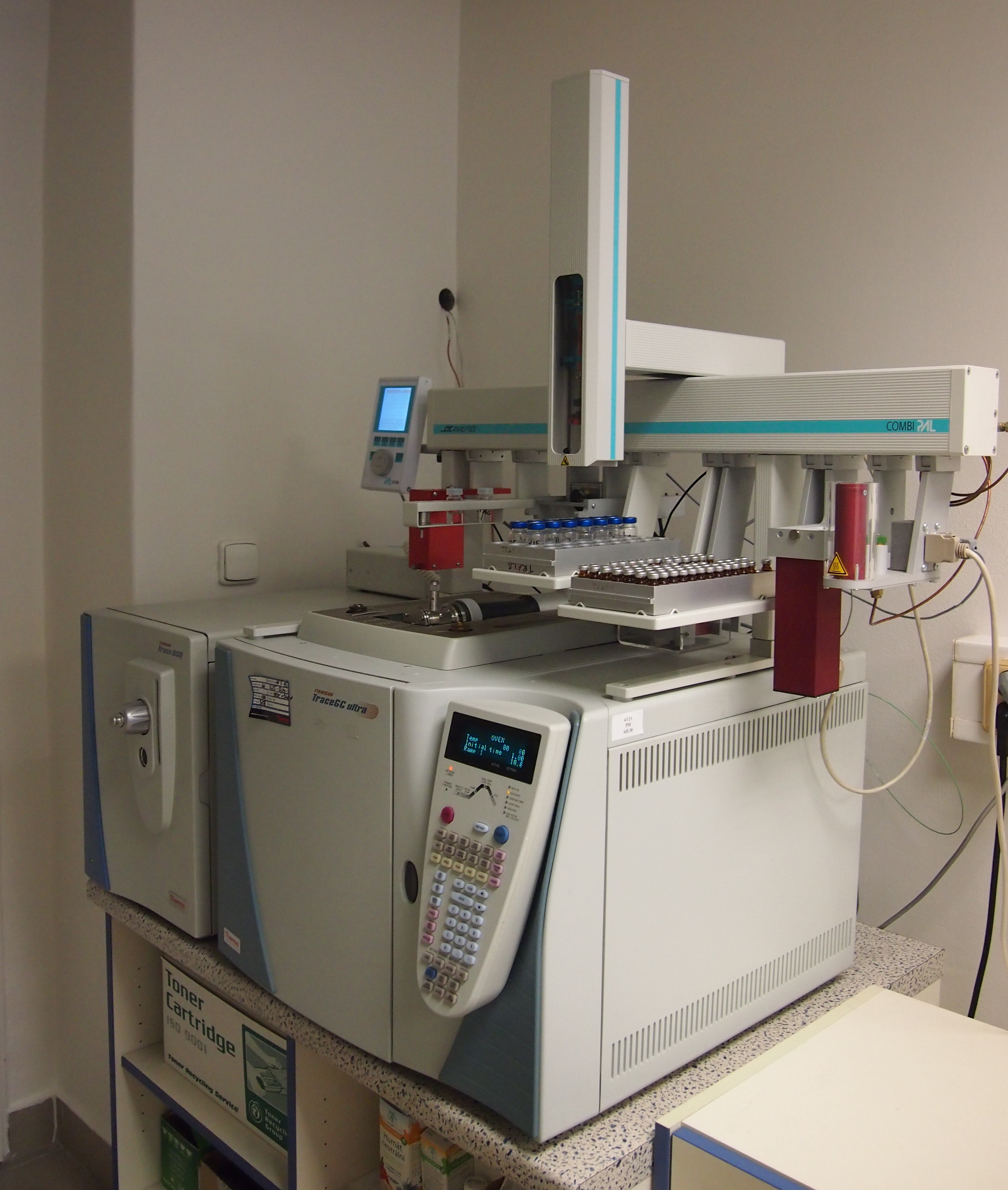 GC-MS Unit at Research Institute of Brewing and Malting, Czech Republic